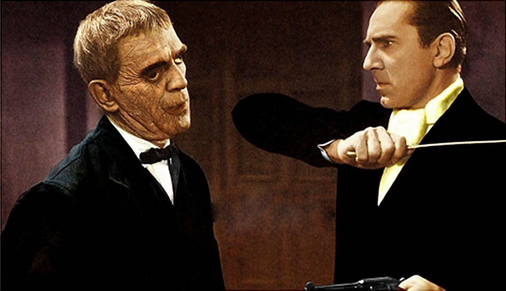 Cropped and edited lobby card for the 1935 Universal horror movie, The Raven, featuring Boris Karloff and Bela Lugosi. This image is assumed to be in the public domain as no copyright notice is in evidence.